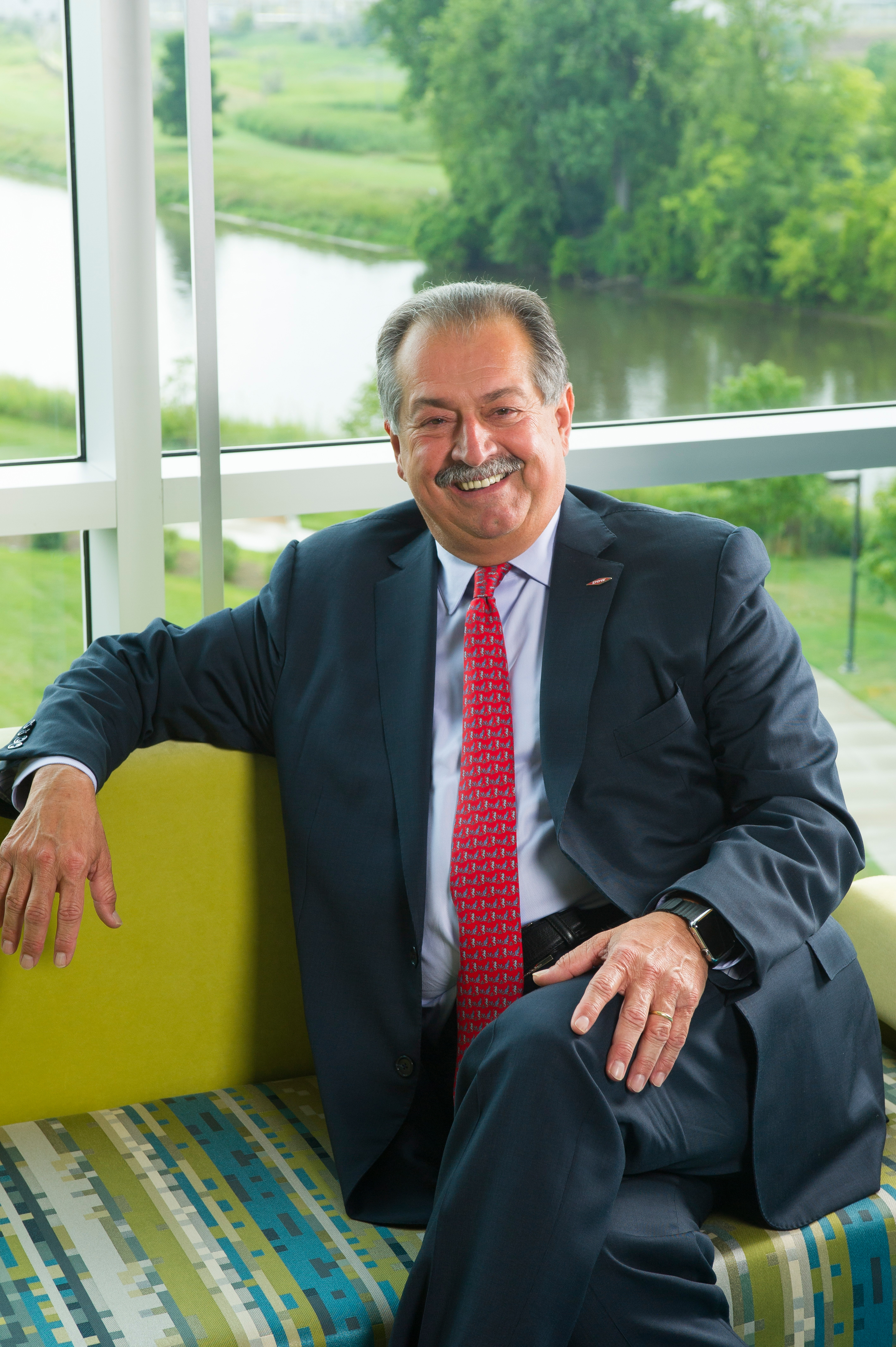 Photo of Dow Chemical Company president Andrew N. Liveris